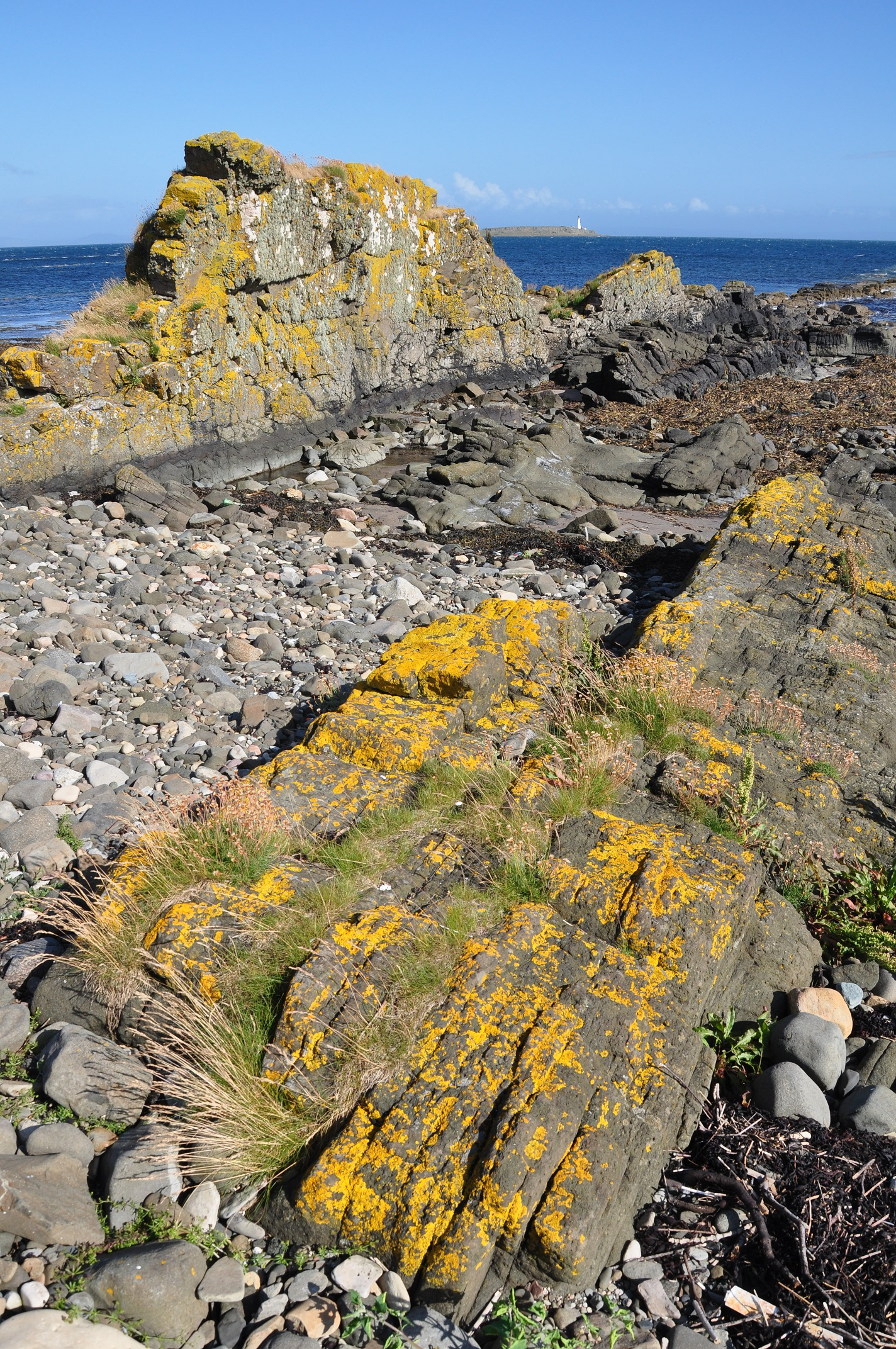 Dykes (vertical intrusions of igneous/magmatic rock, forming parallel rock walls) on the beach of the Isle of Arran, Scotland. In the distance the small island of Pladda, with its lighthouse.